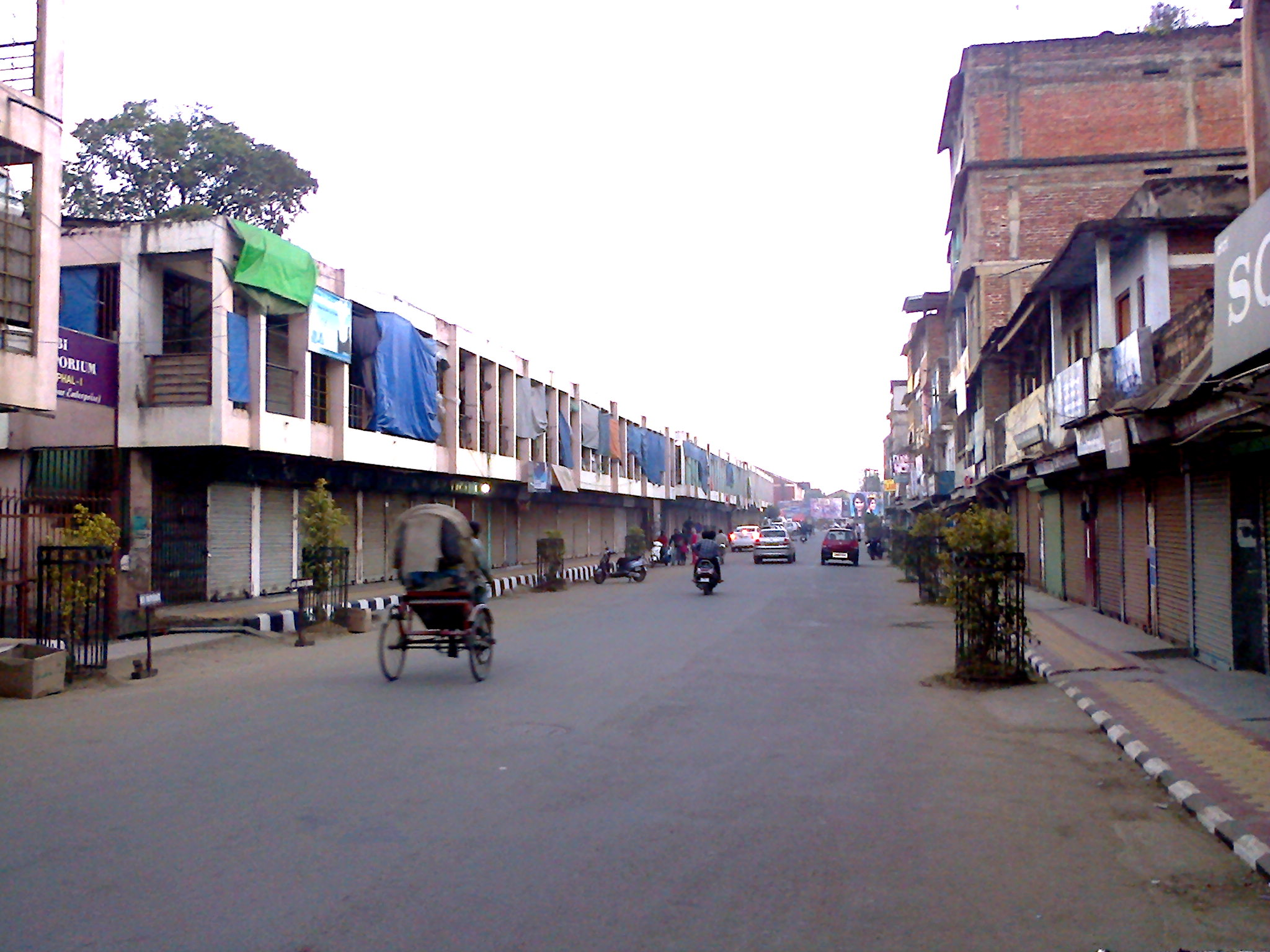 Pouna Bazar Market, Imphal